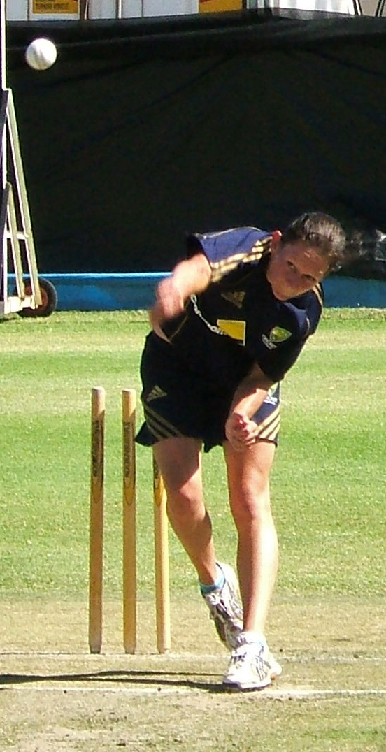 Named person engaging in named action at Adelaide Oval nets/training ground